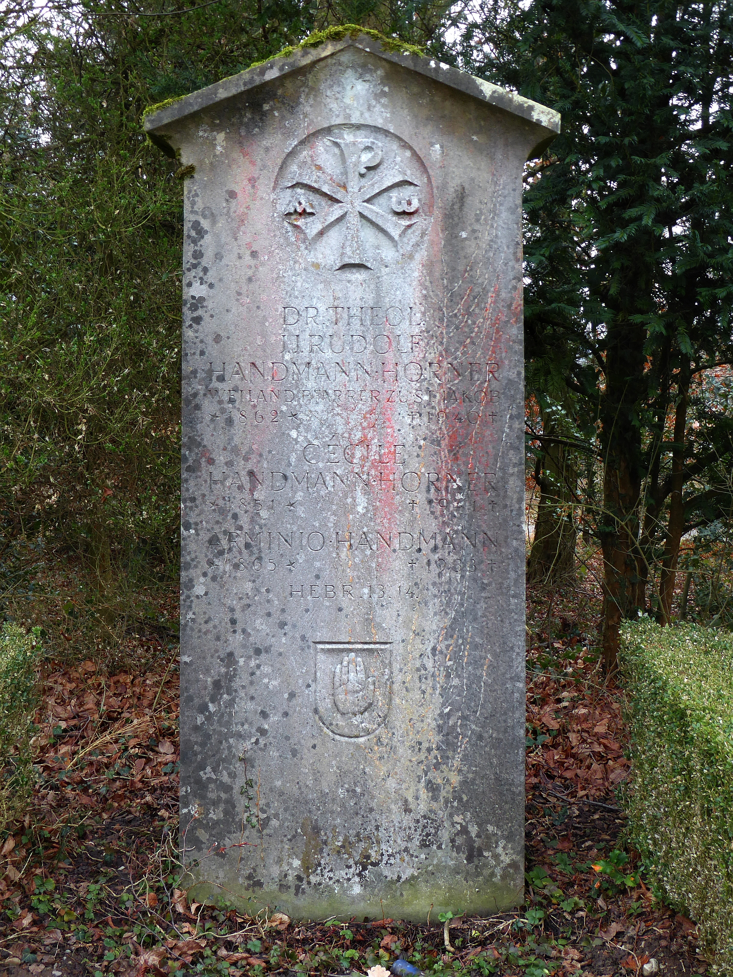 J.J.Rudolf Handmann-Horner (1862–1940) was a Swiss pastor, professor, theologian and biblical scholar. Cemetery Hörnli, Riehen, Basel-Stadt